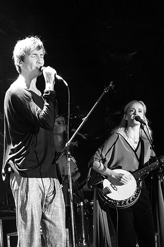 Helgi Hrafn Jonsson og Tina Dickow, Aarhus Festuge 2015